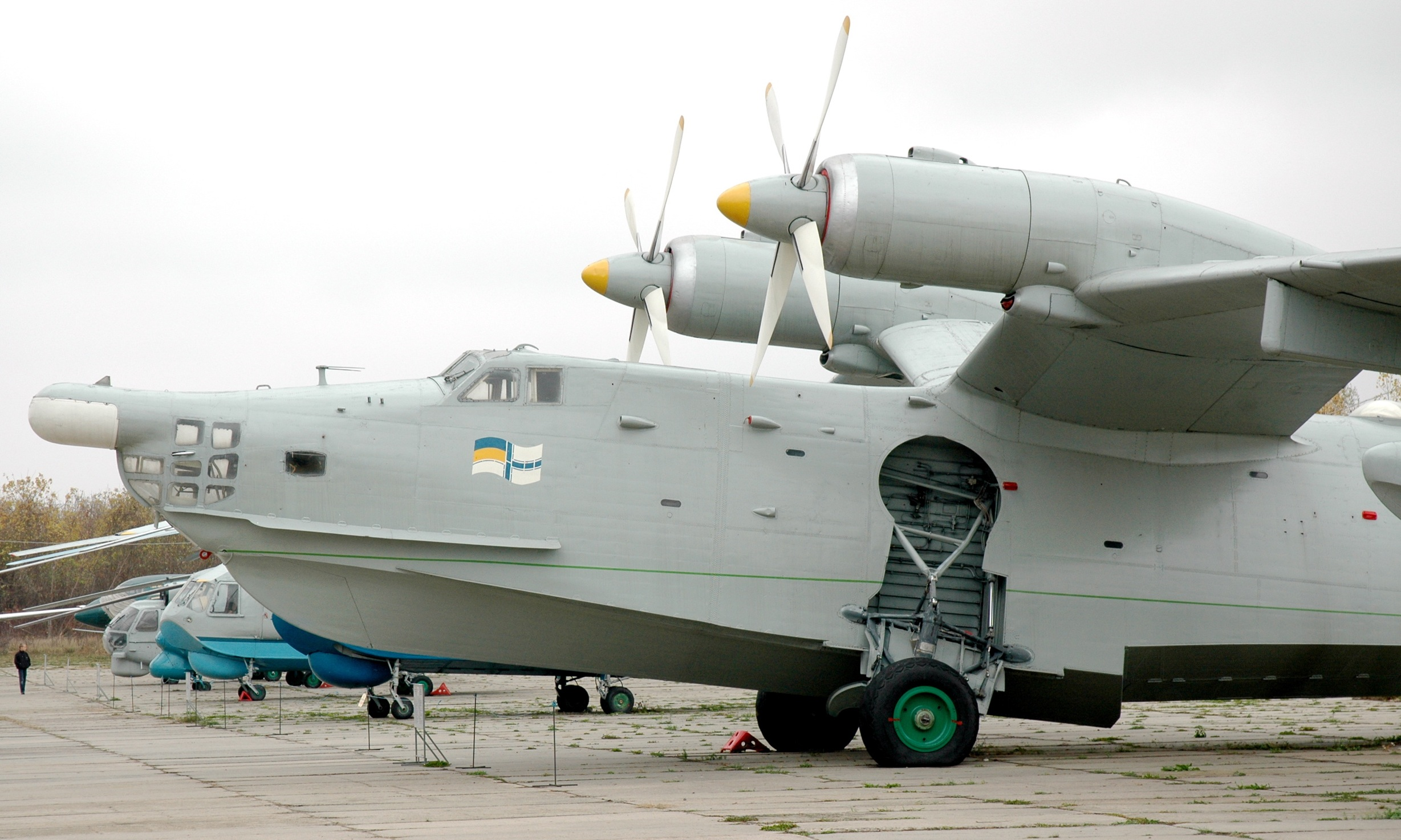 Beriev Be-12 amphibious anti-submarine and maritime patrol aircraft, displayed at the Ukrainian State Aviation Museum, Kyiv